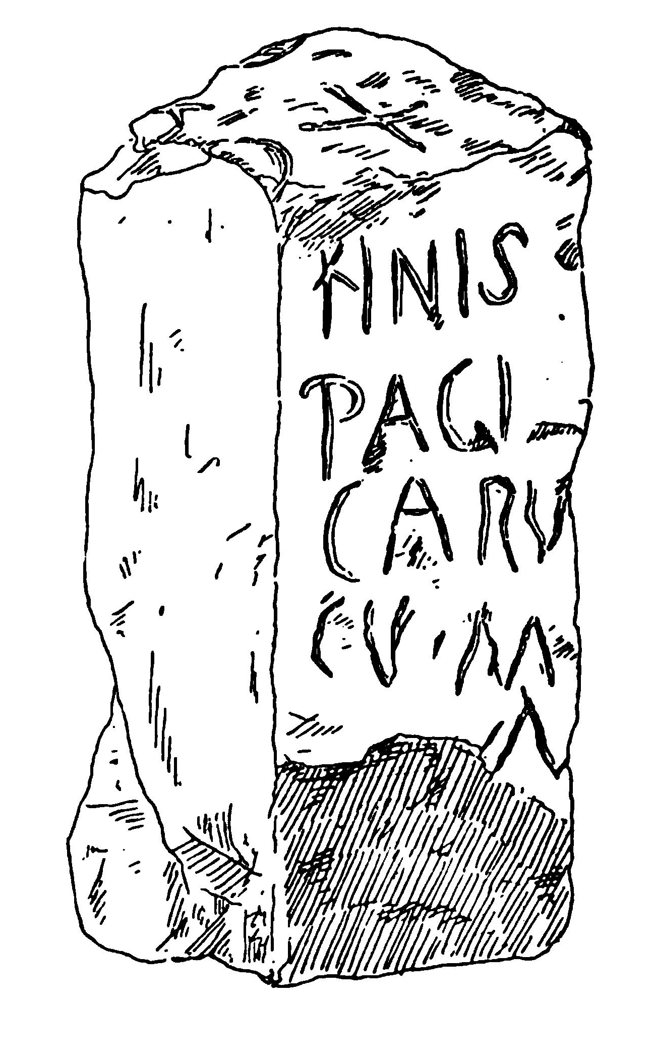 Drawing of a Roman milestone from Neidenbach near Kyllburg, Germany, with inscription CIL XIII,4143; the drawing was based on a mould in the Provinzialmuseum Trier